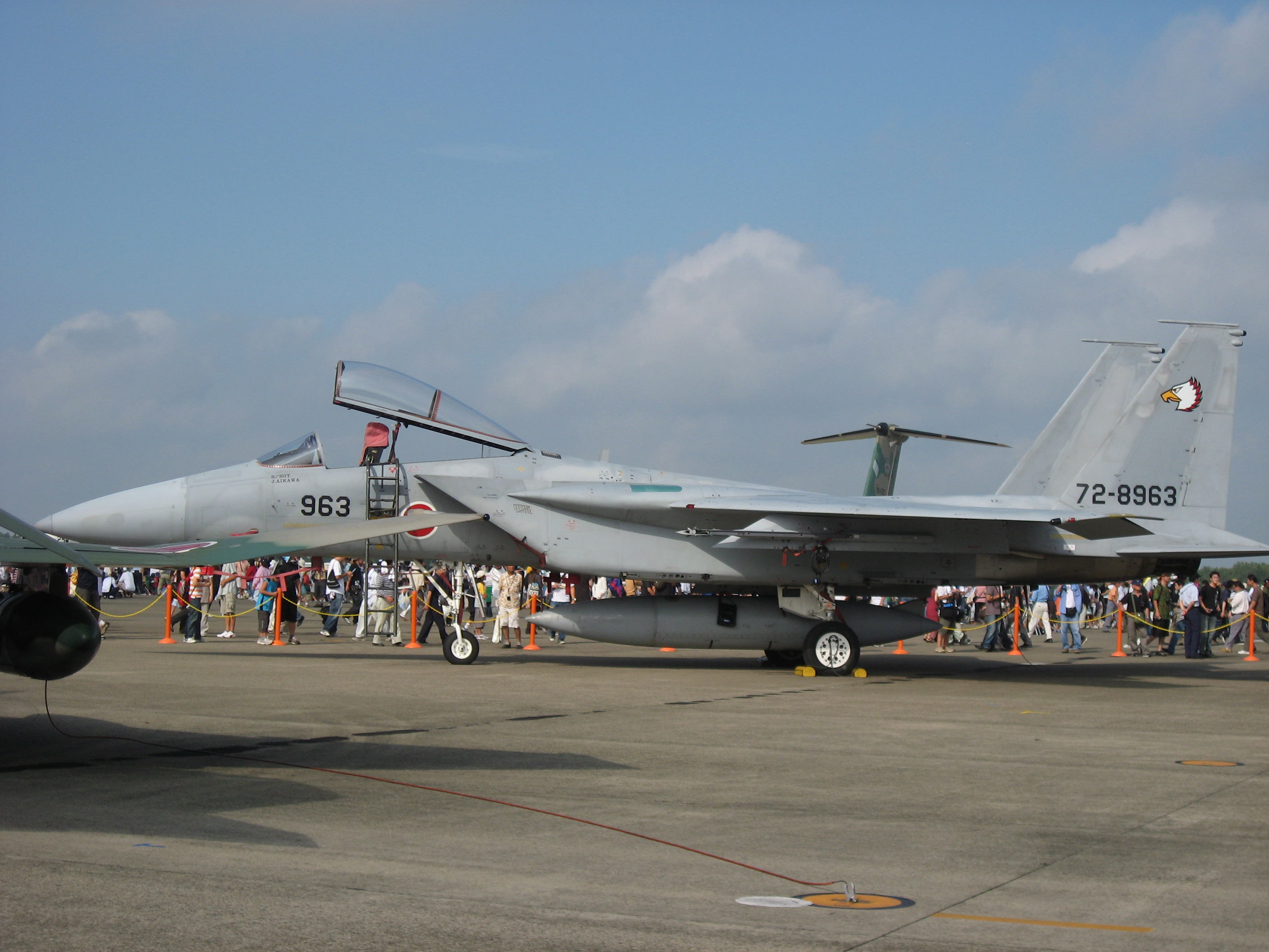 F-15J (963) of 204 Sqn at Hyakuri Air Base open day.Canon Digital IXUS 800 IS